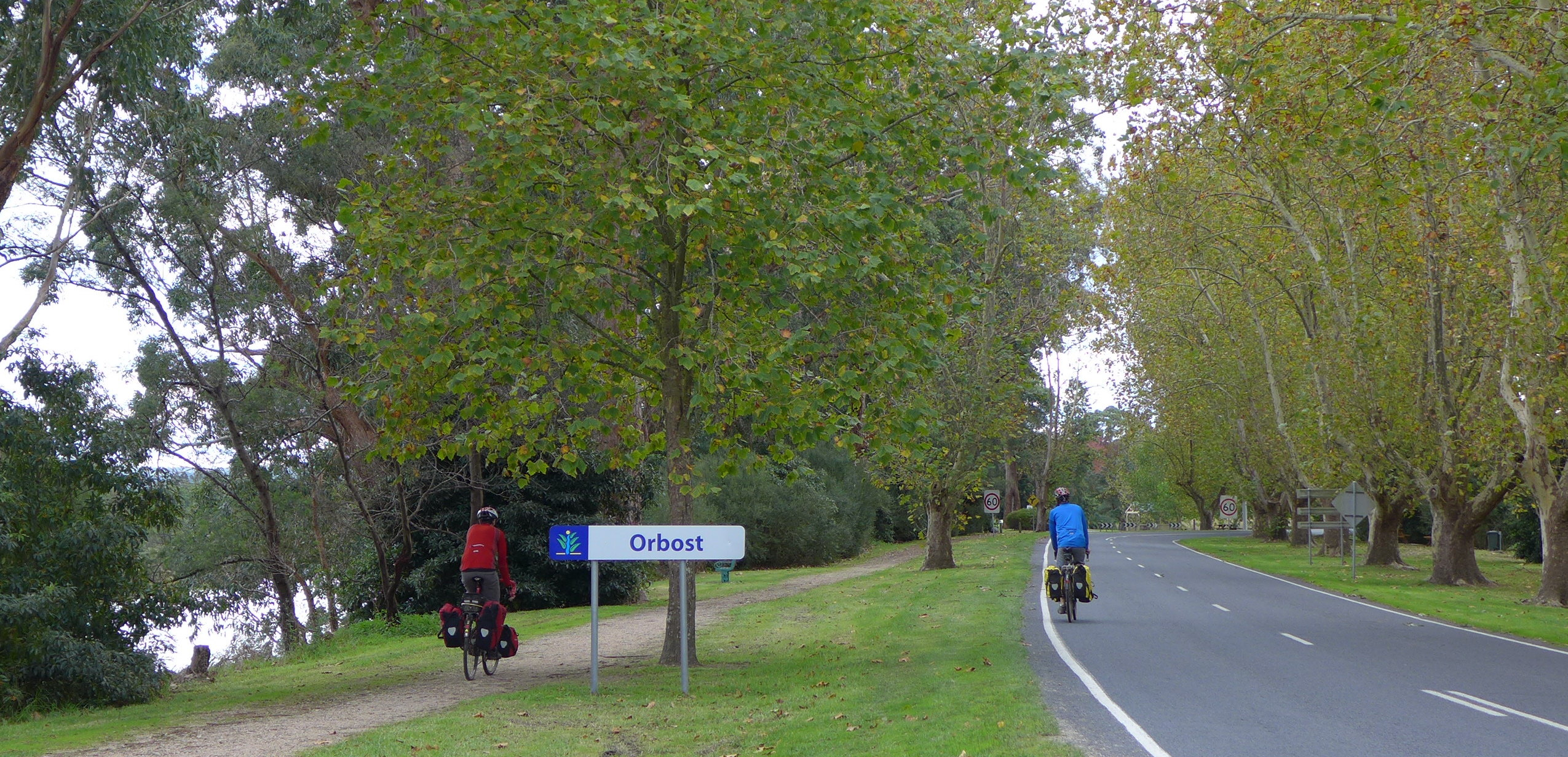 Outskirts of Orbost.